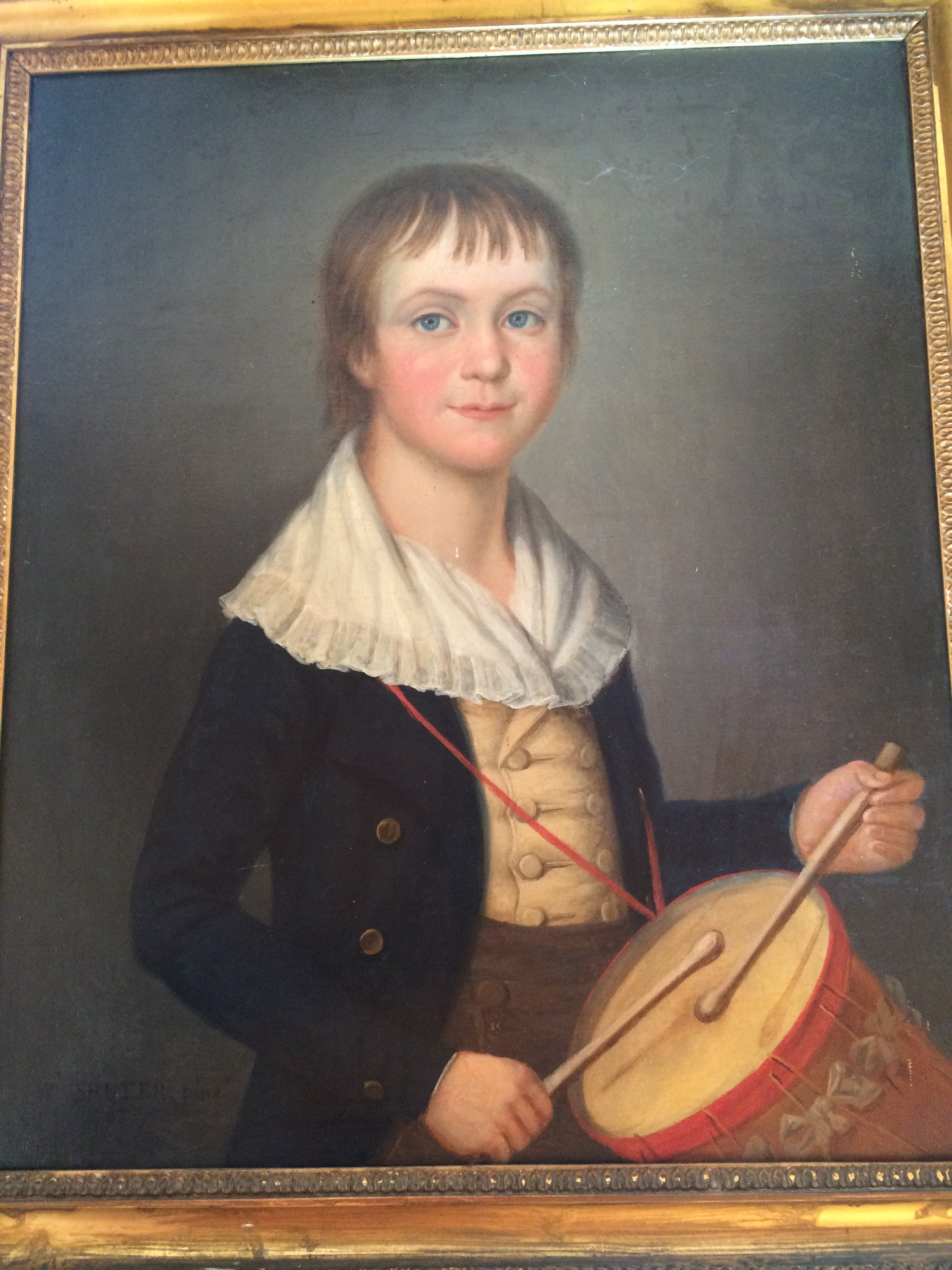 Circa 1797, Artist William Shuter